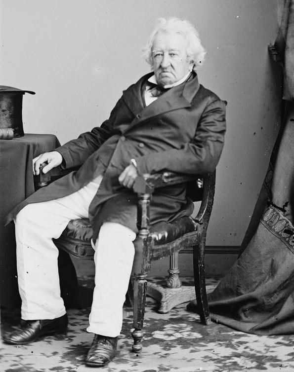 Gulian C. Verplanck, U.S. Representative from New York